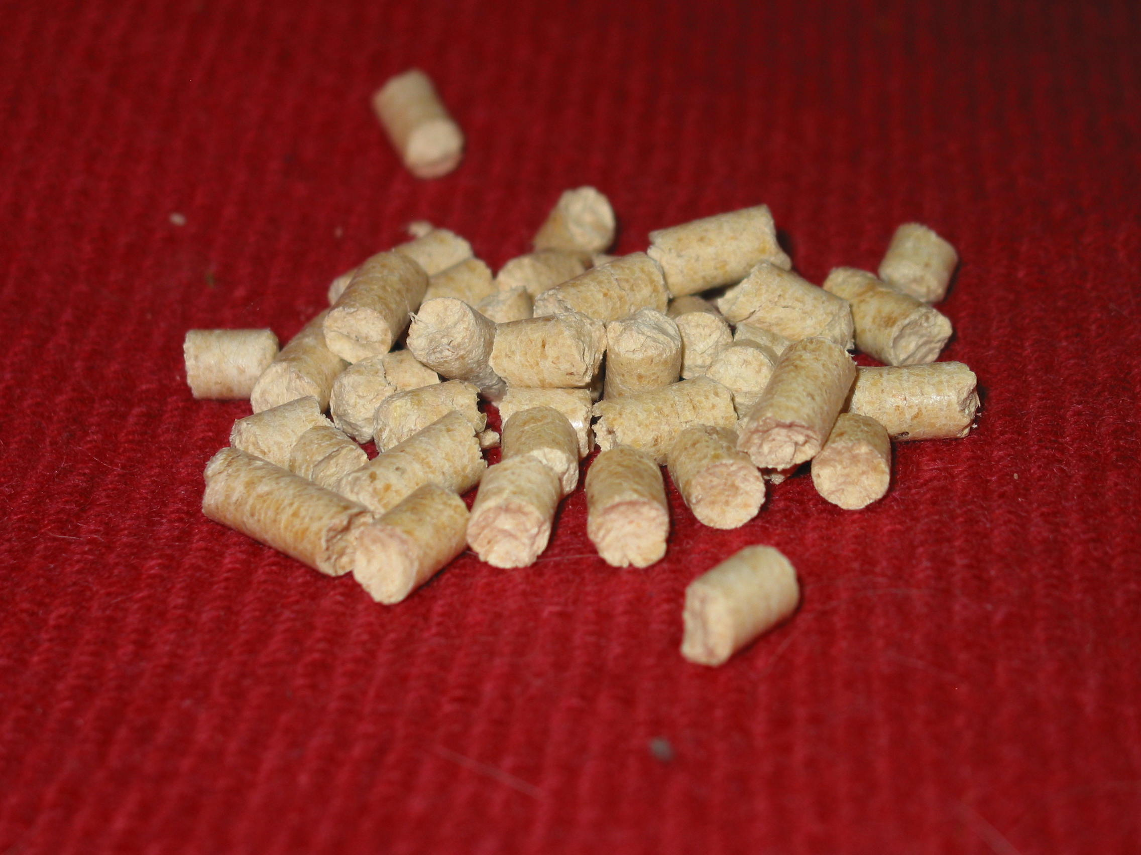 Briquettes of wood